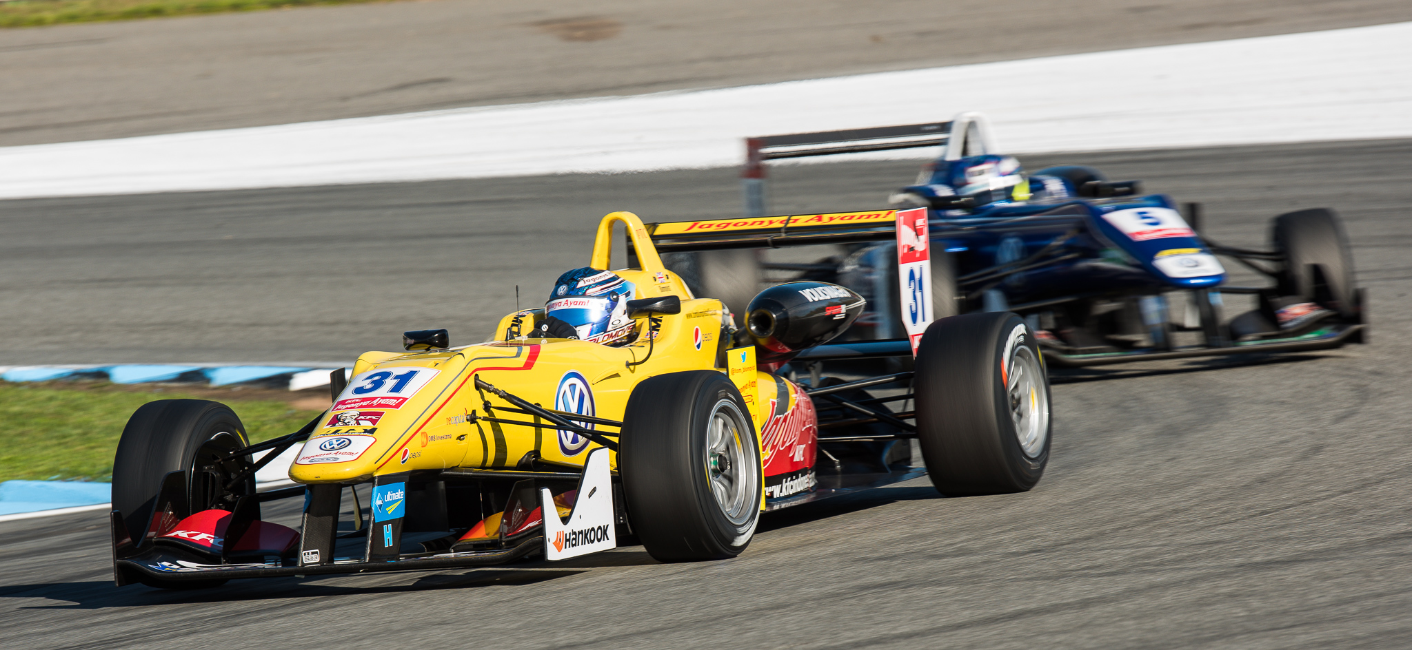 DTM,Dallara F312,Deutsche Tourenwagen Masters,F3 FIA European Championship,FIA Formel 3 Europameisterschaft,Hockenheimring,Jagonya Ayam with Carlin,Motorsport,Tom Blomqvist,Volkswagen